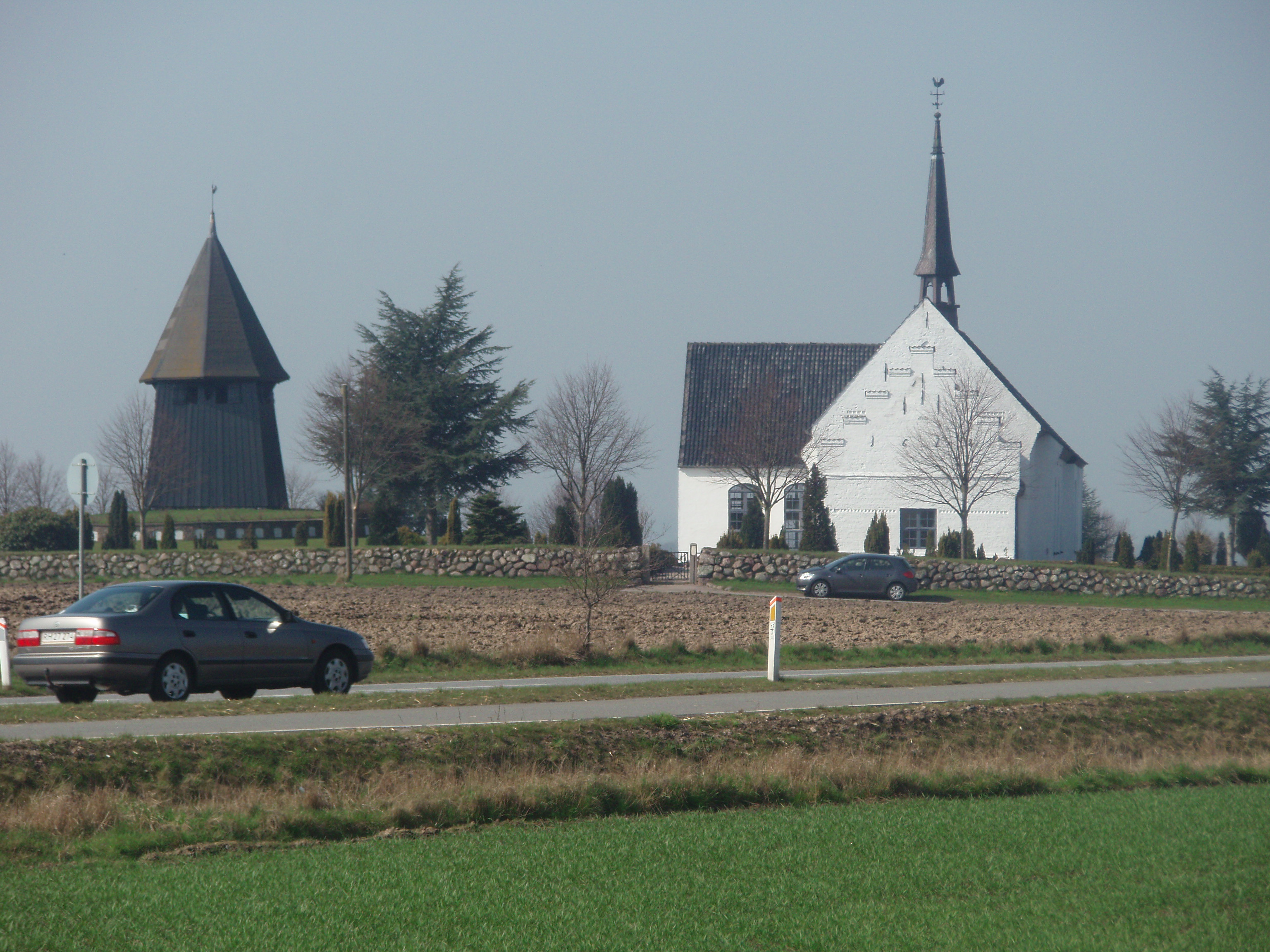 Egen Kirke, Guderup Denmark. April 2009